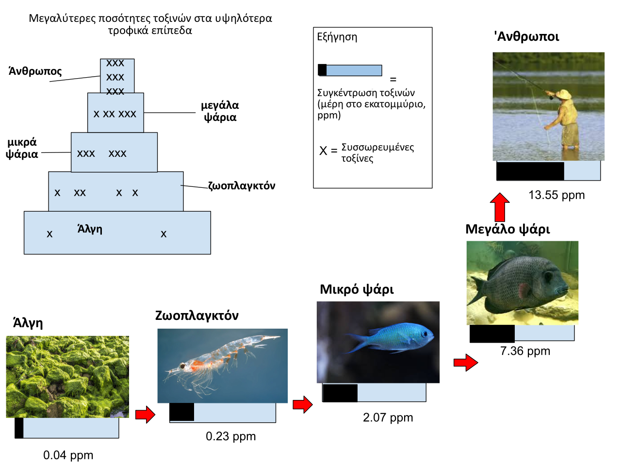 Translation of File:The build up of toxins in a food chain.svg into Greek